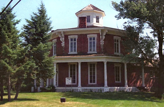 Picture of the Loren Andrus Octagon house July 1996, Washington Michigan.